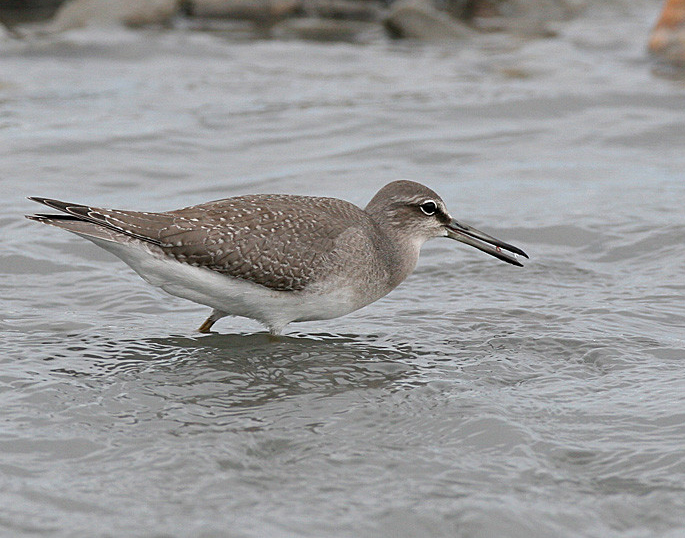 Tringa brevipes, Taitung, China.